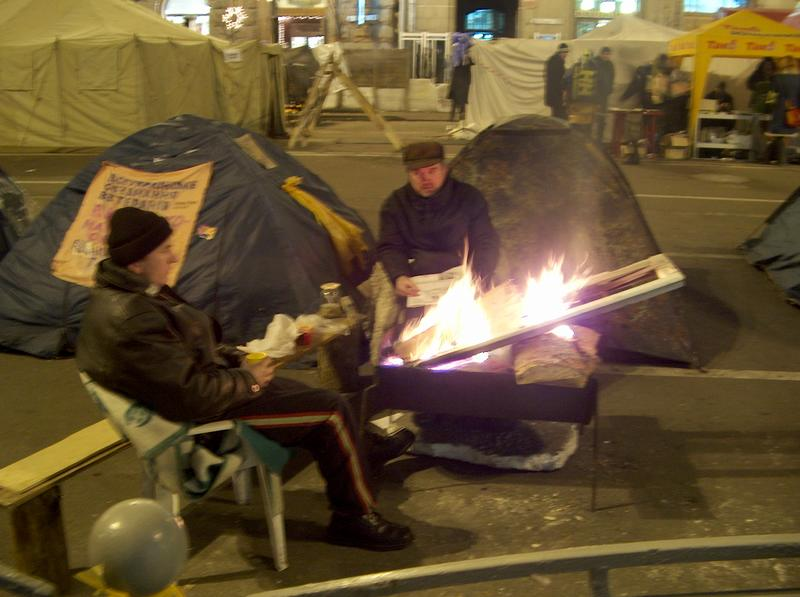 Protestors on Khreschatyk street in Kiev, Ukraine during the Orange Revolution.